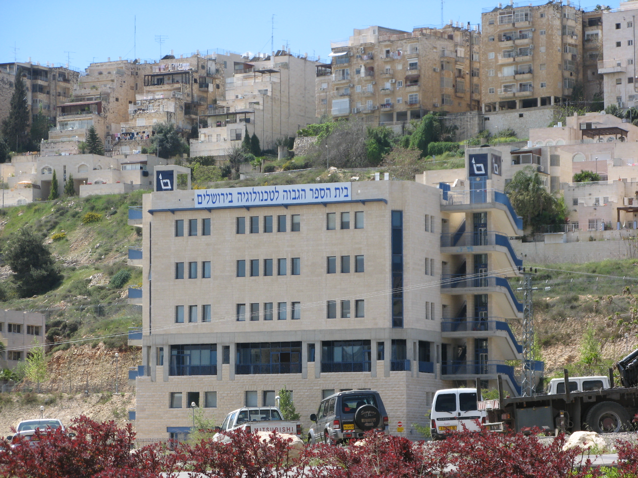 New building of Mechon Lev